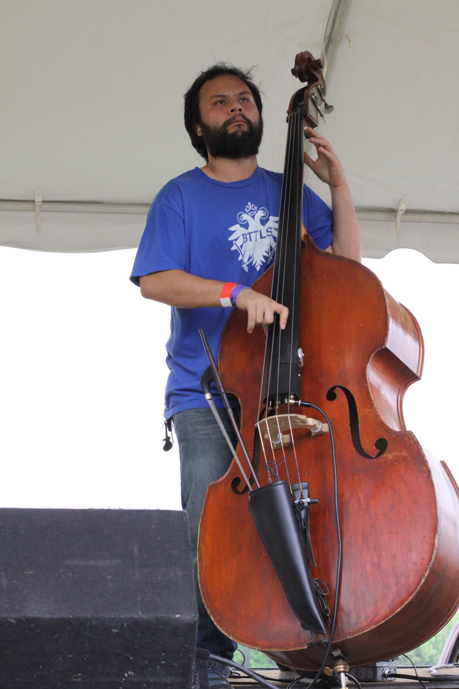 TJ Kong and the Atomic Bomb Dan Bruskewicz - Vox, Rhythm Guitar, Harmonica Kevin Conner - Lead Guitar Joshua "J.A.M" Machiz - Upright Dan Cask - Drums, yelling References TJ Kong + the Atomic Bomb. . TJ Kong + the Atomic Bomb. .